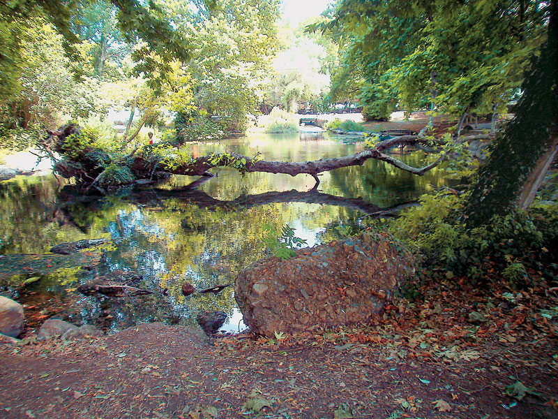 Aravissos Giannitsa Pella